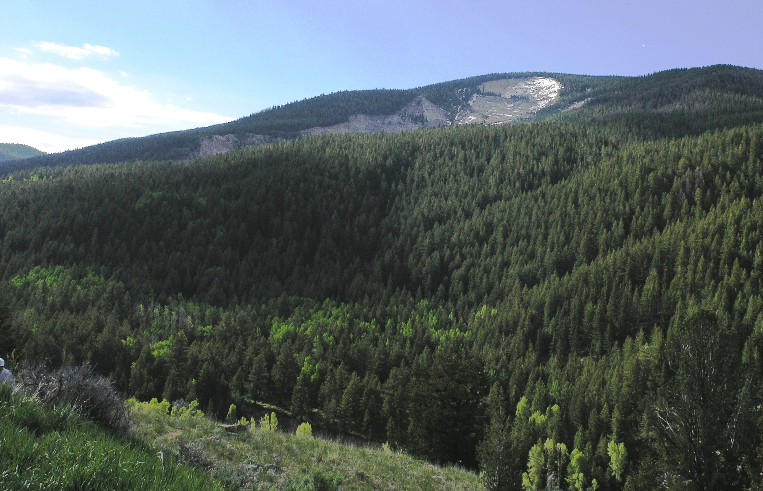 Photo in or around Grand Teton National Park